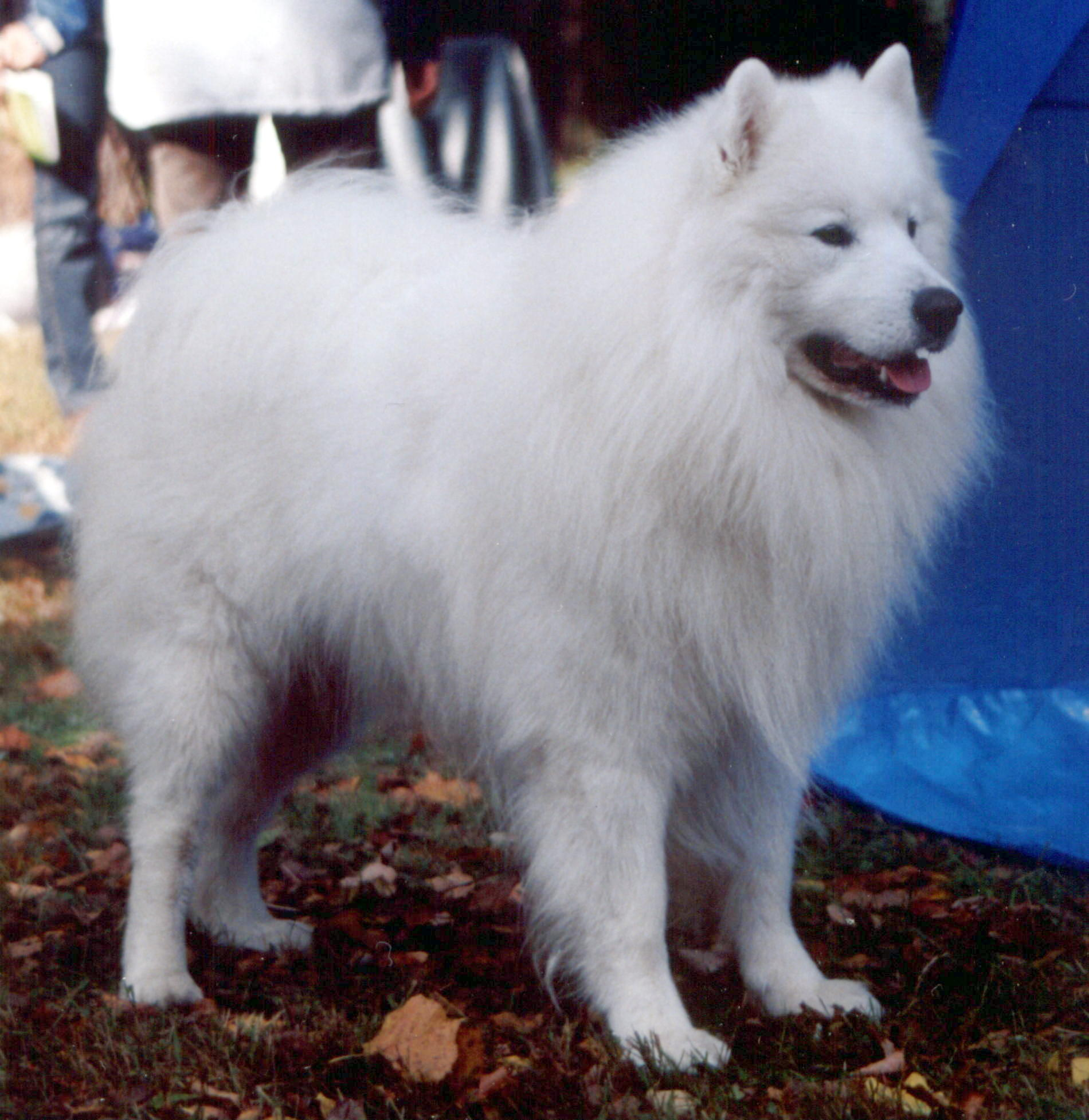 author: Pleple2000